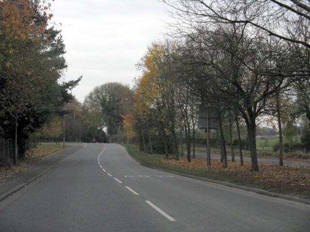 A535 road, approaching Chorley Hall in Alderley Hall, Cheshire. On the left is a road leading off called Chorley Lane which leads to Macclesfield